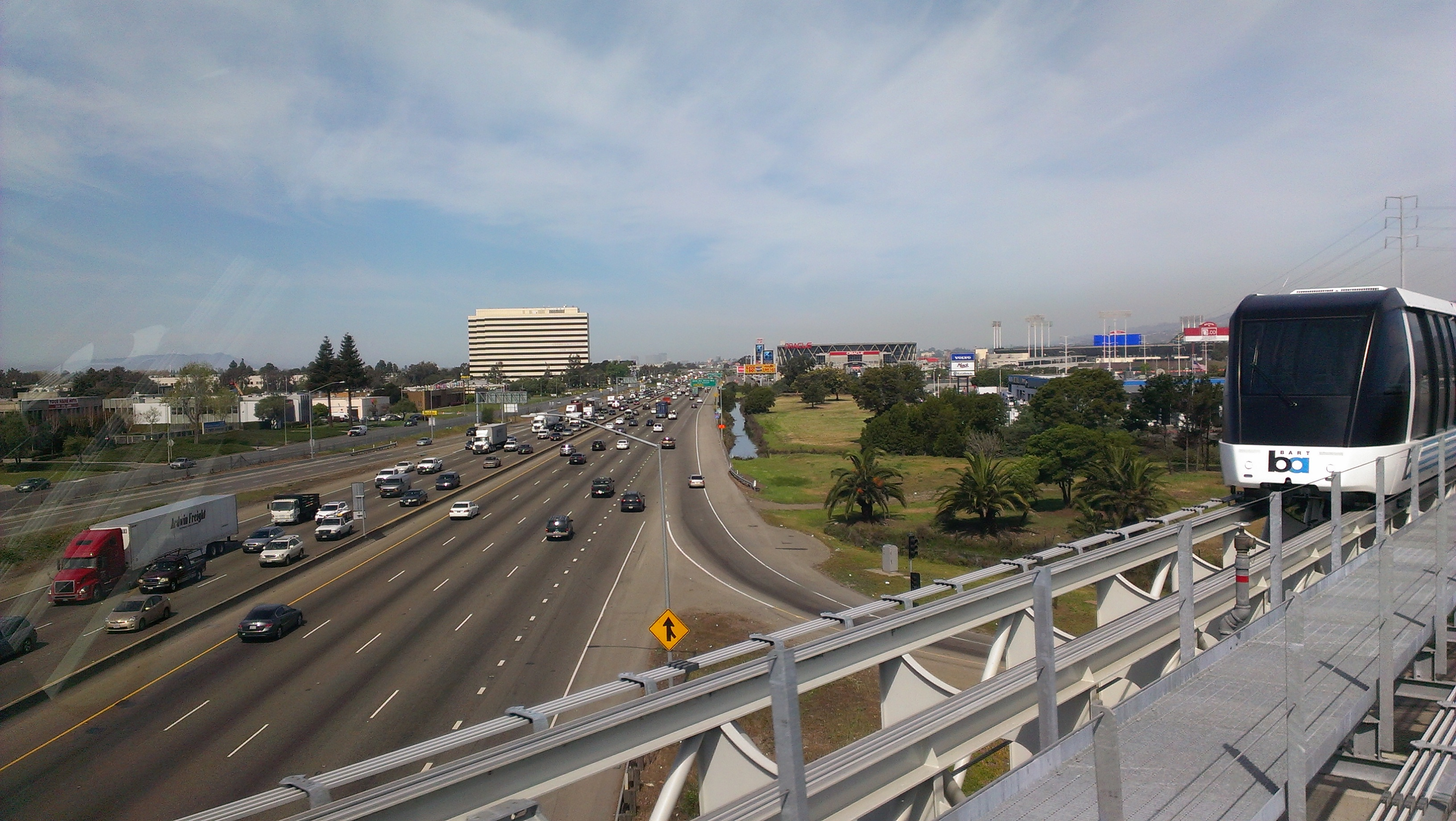 Viewed from south